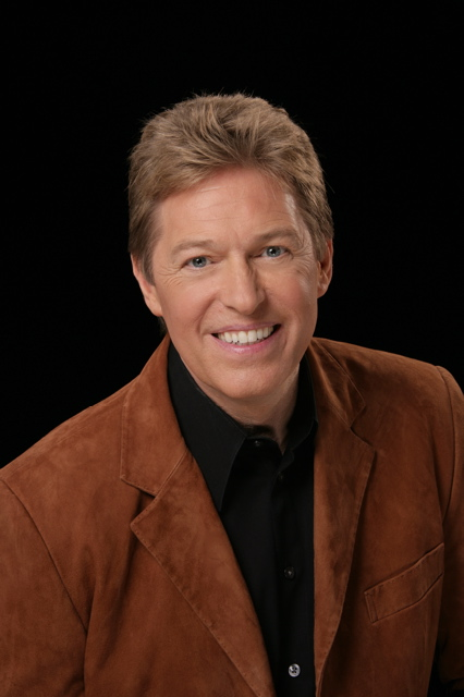 Steve in tan jacket